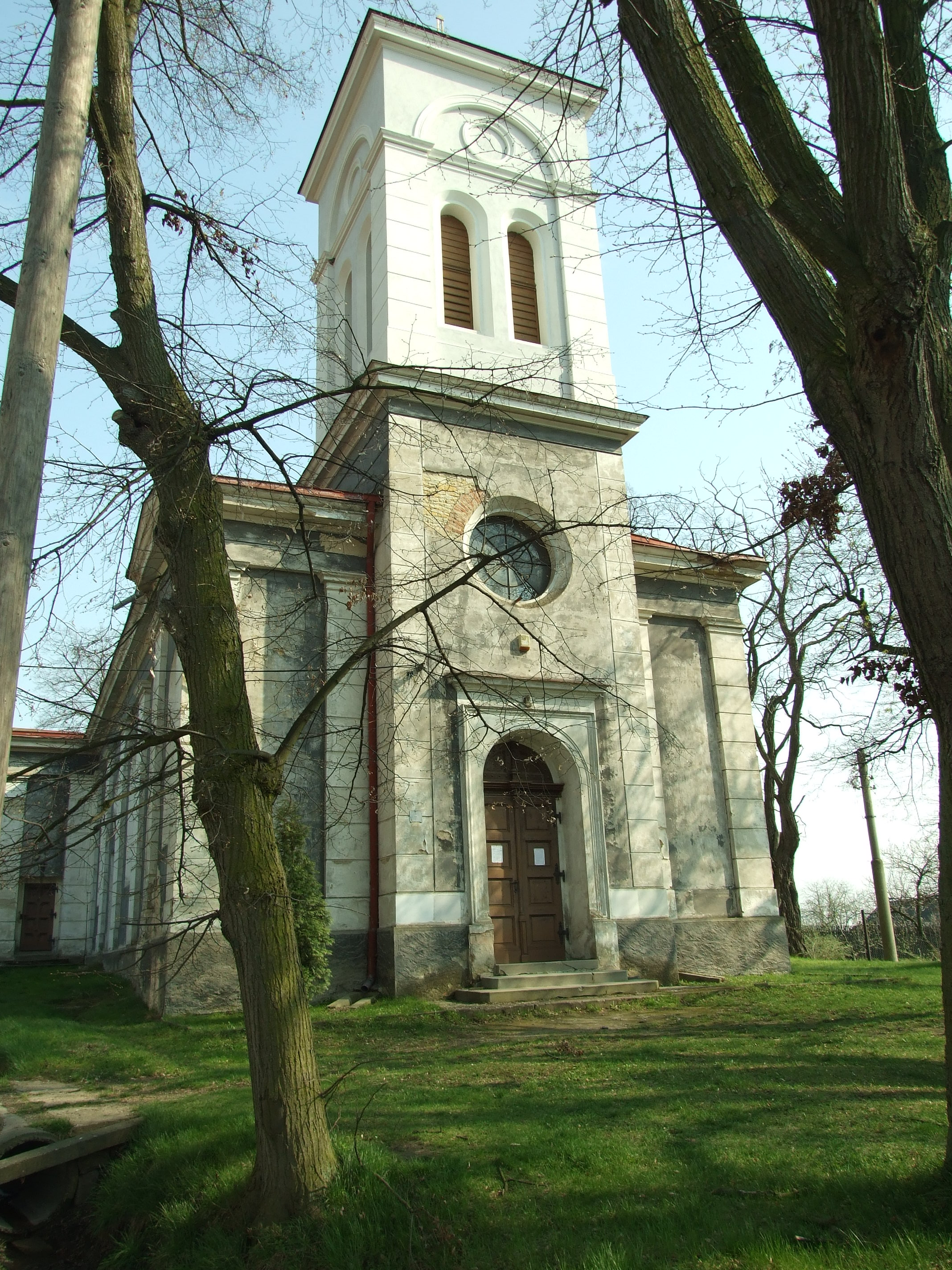 A church in Kly-Záboří, Mělník District, Central Bohemian Region, CZ